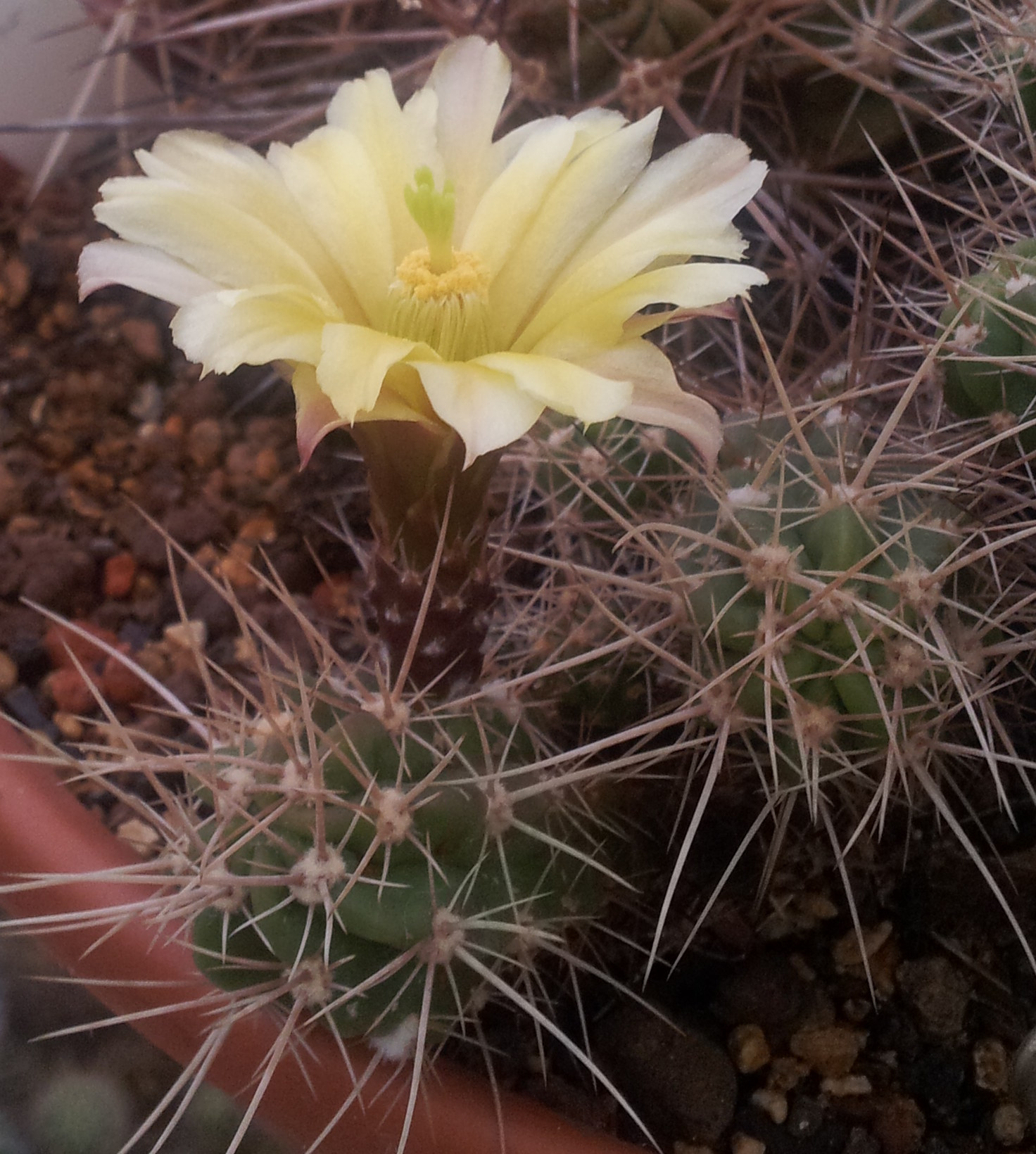 Echinocereus maritimus subsp. hancockii